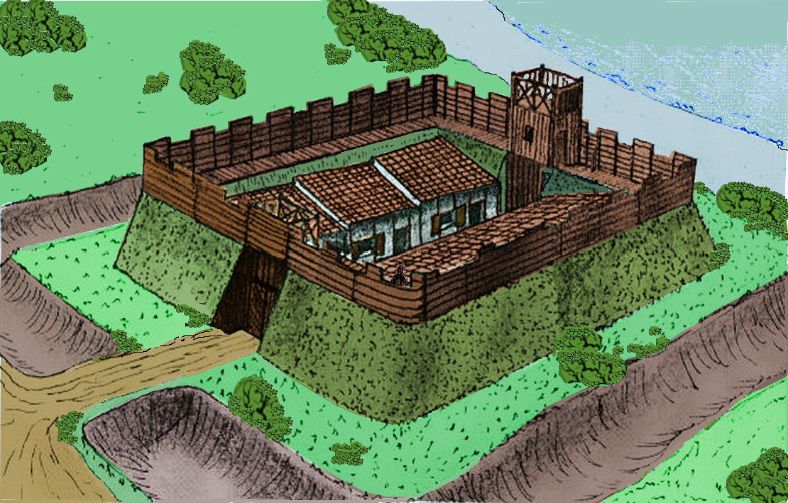 Milefortlet of the Roman coastal protection in the county of Cumbria, southwest of the Hadrians Wall, 2nd century AD.